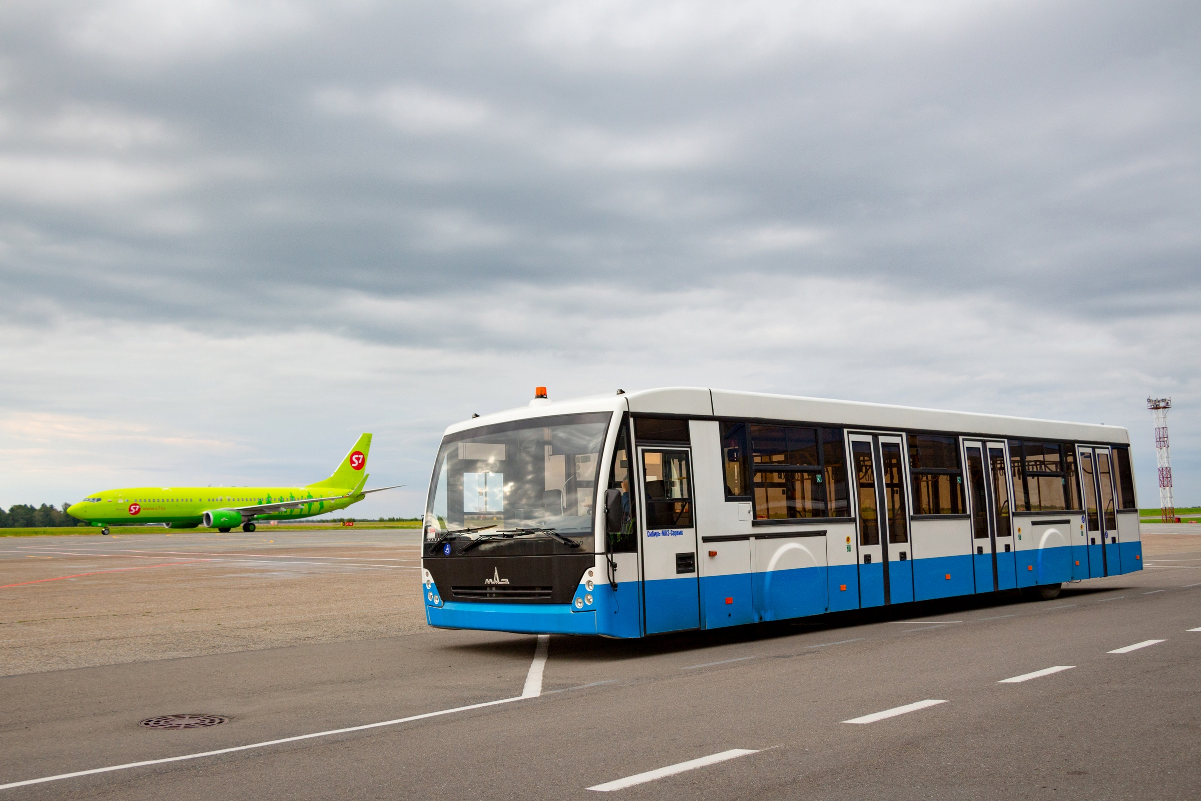 MAZ-171 apron bus at Tomsk airport (UNTT), Russia